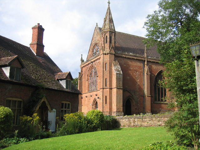 The Parish Church of St Mary the Virgin, Temple Balsall. This church lies within the foundation of Lady Katherine Leveson and has an history going back to the Knights Templar. On the left is the Old Hall of the Knights Templar. For more details of the history of this interesting area